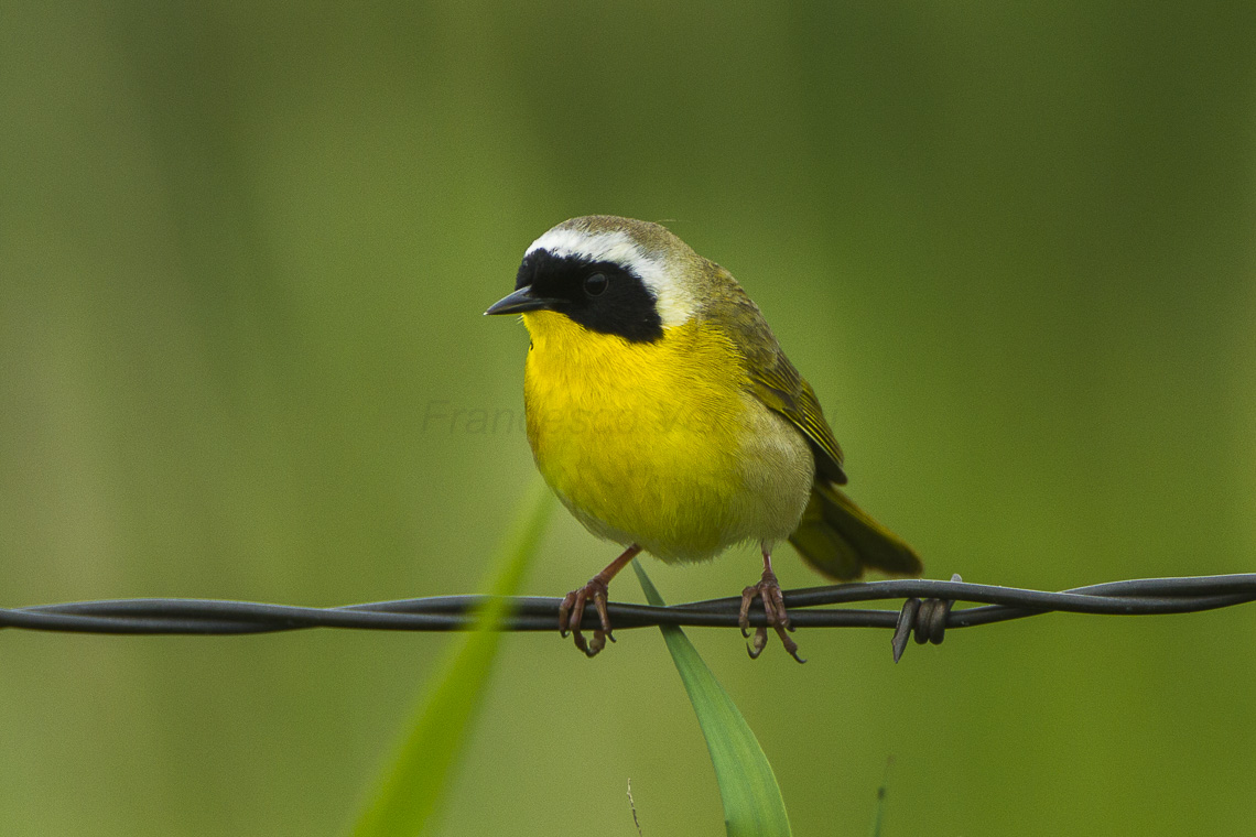 Common Yellowthroat - Malheyr NWR - Oregon_S4E9693